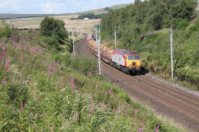 Southbound timber train at Greenholme